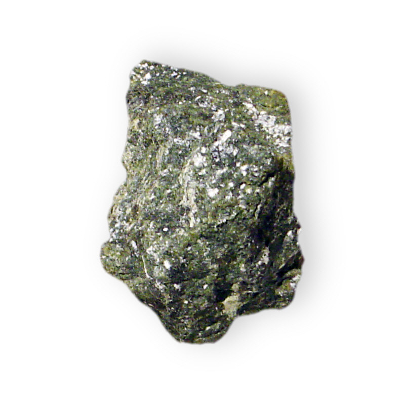 These mineral images are free to use how you wish.